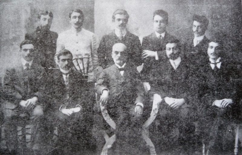 Petre Melikishvili - with students of Odessa University in Odessa.